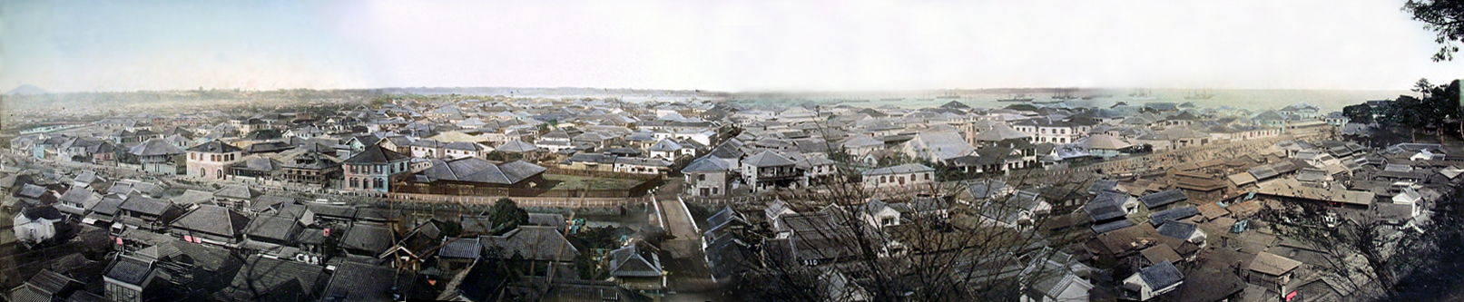 One picture made of four